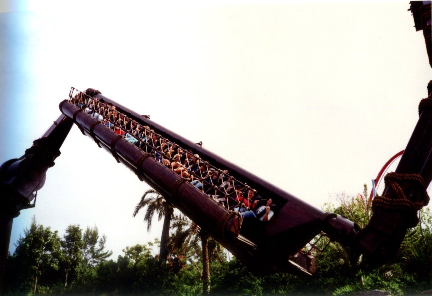 Tífon was one of only a few Vekoma Wakiki Wave in the world. The ride is similar in looks to a top spin however the arms can move in opposite directions giving a twisting motion. It was located at the PortAventura theme park in Salou on the Costa Daurada, Spain.